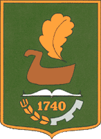 Coat of Arms of Buturlinovka (Voronezh oblast)